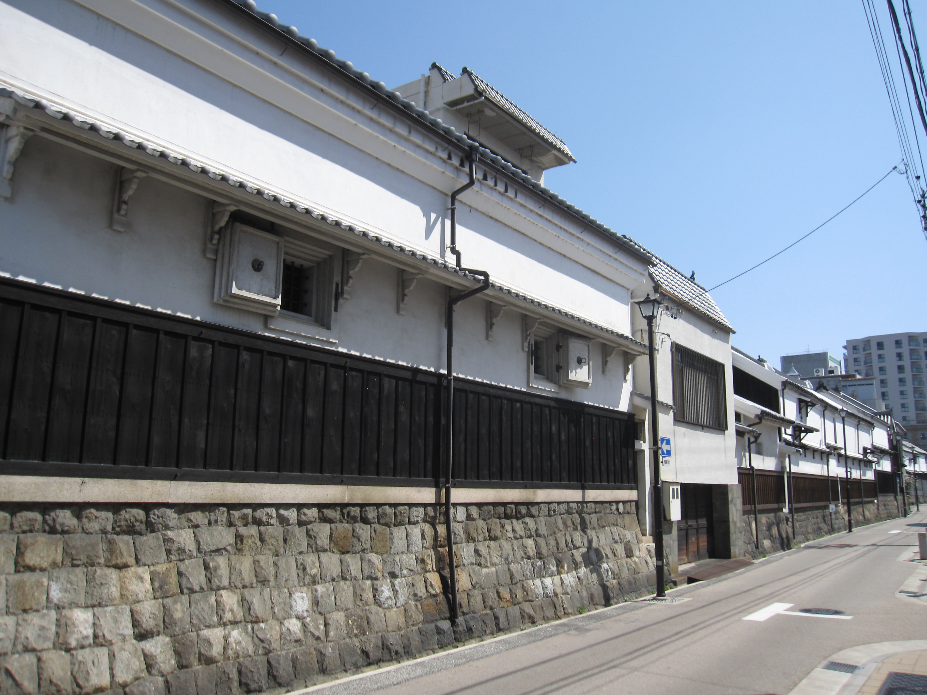 Shikemichi (四間道) is a small historical street in Nishi-ku, Nagoya in central Japan.